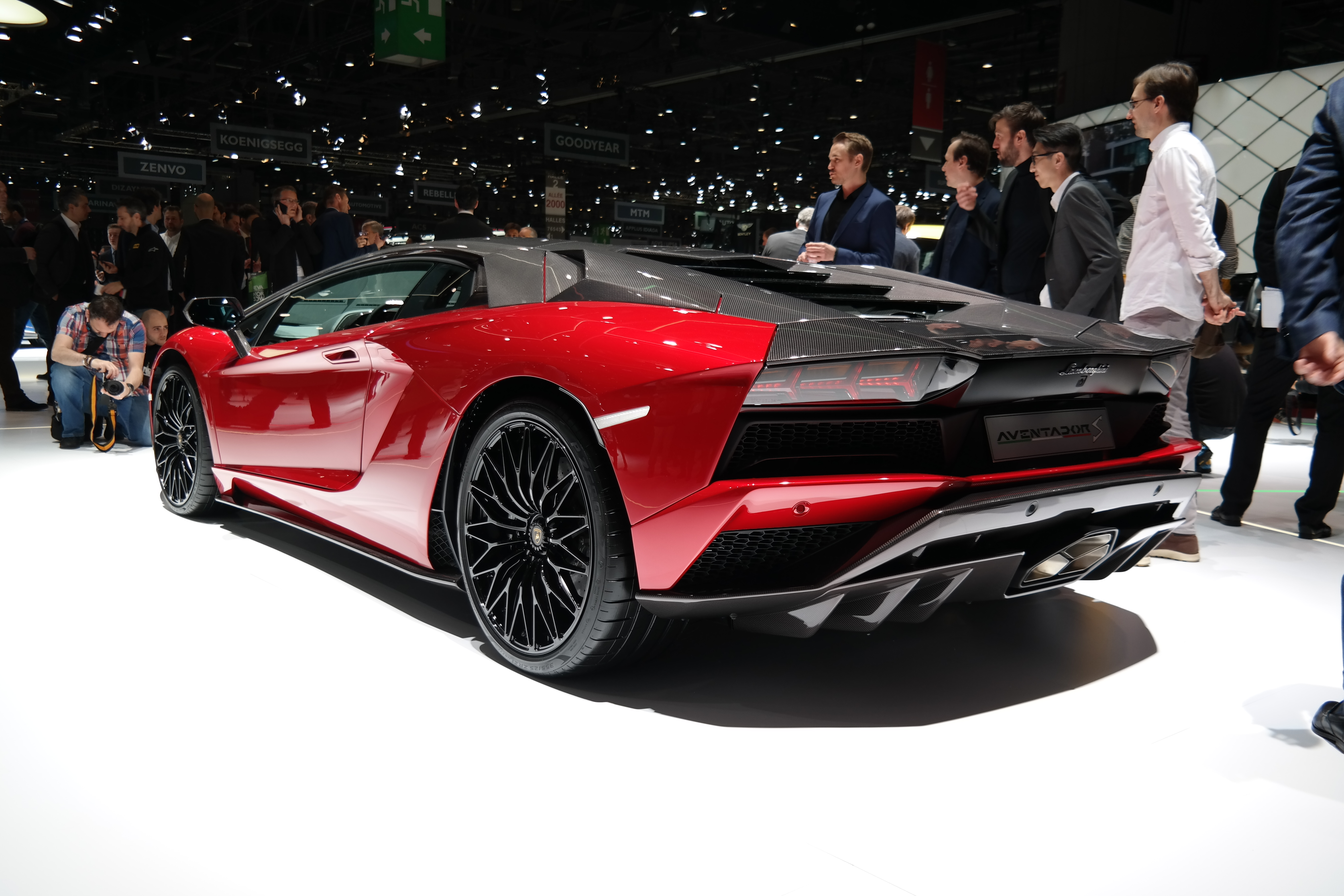 Geneva Motor Show 2018 (photo taken on the first press day)